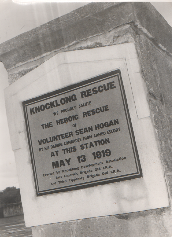 An old plaque commmerating the rescue of Sean hogan at Knocklong, this plaque has been replaced with a newer plaque listing all the names of the rescuers